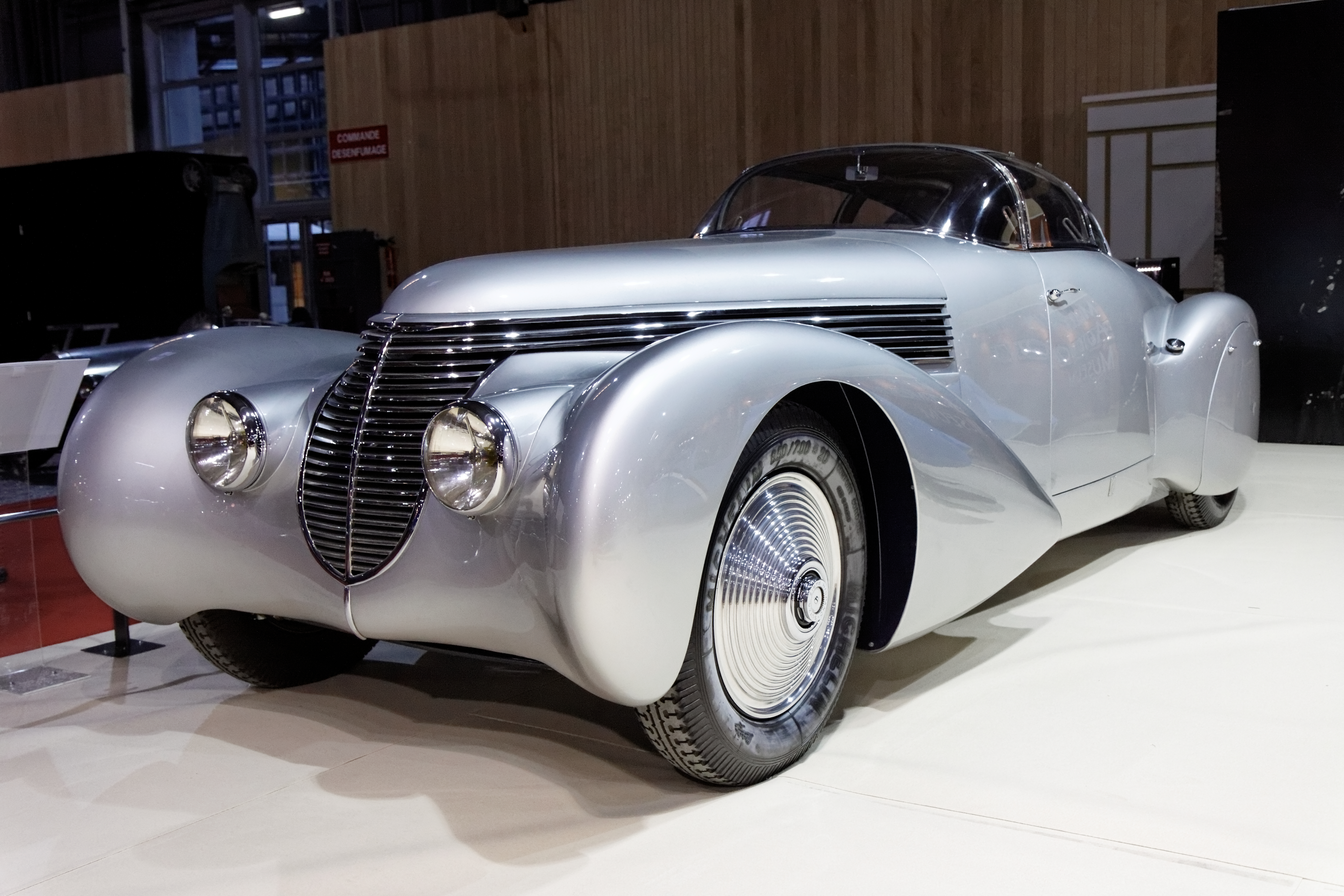 Hispano-Suiza type H6 C